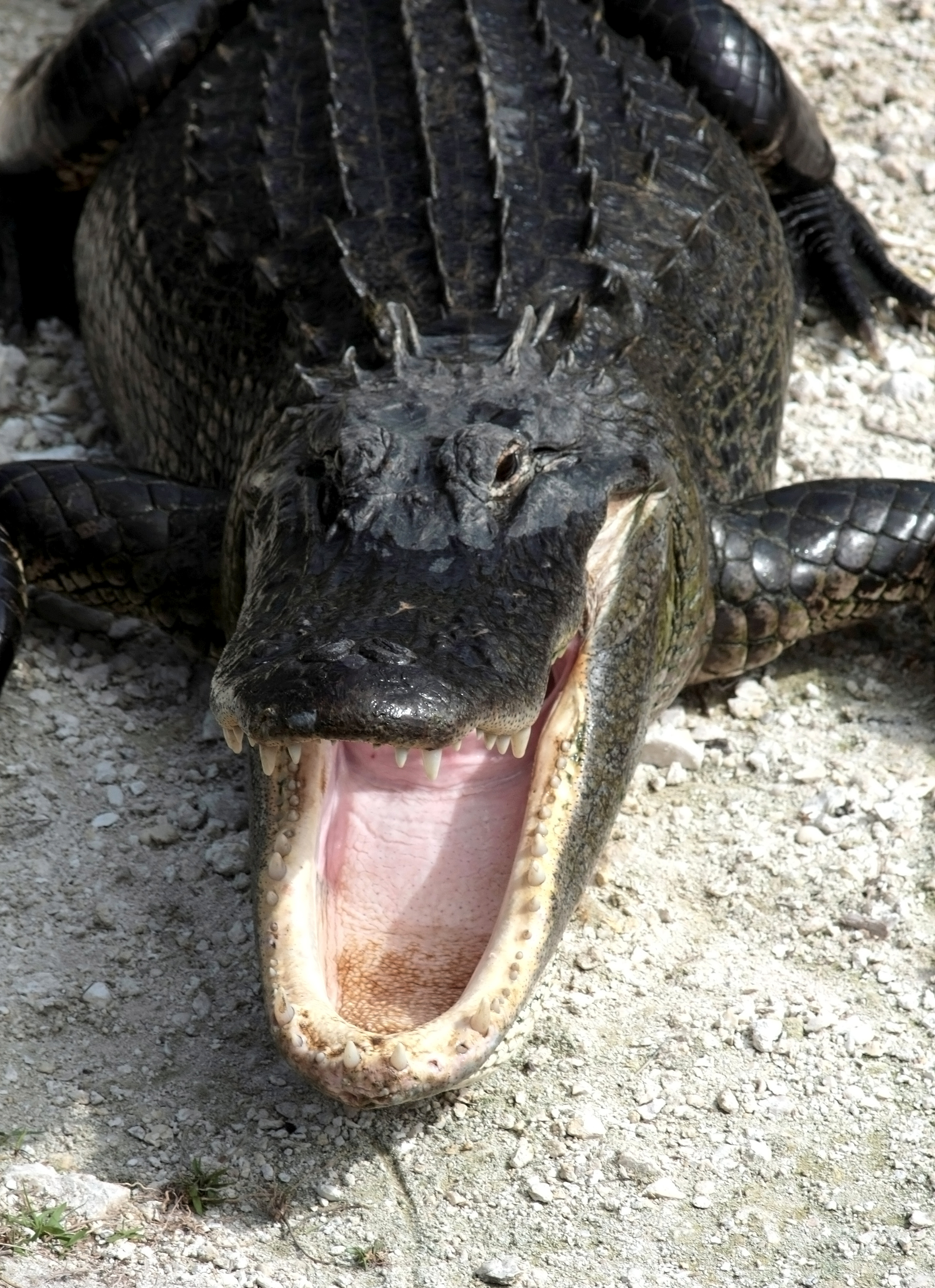 A yawning American alligator (Alligator mississippiensis), Collier county, Florida